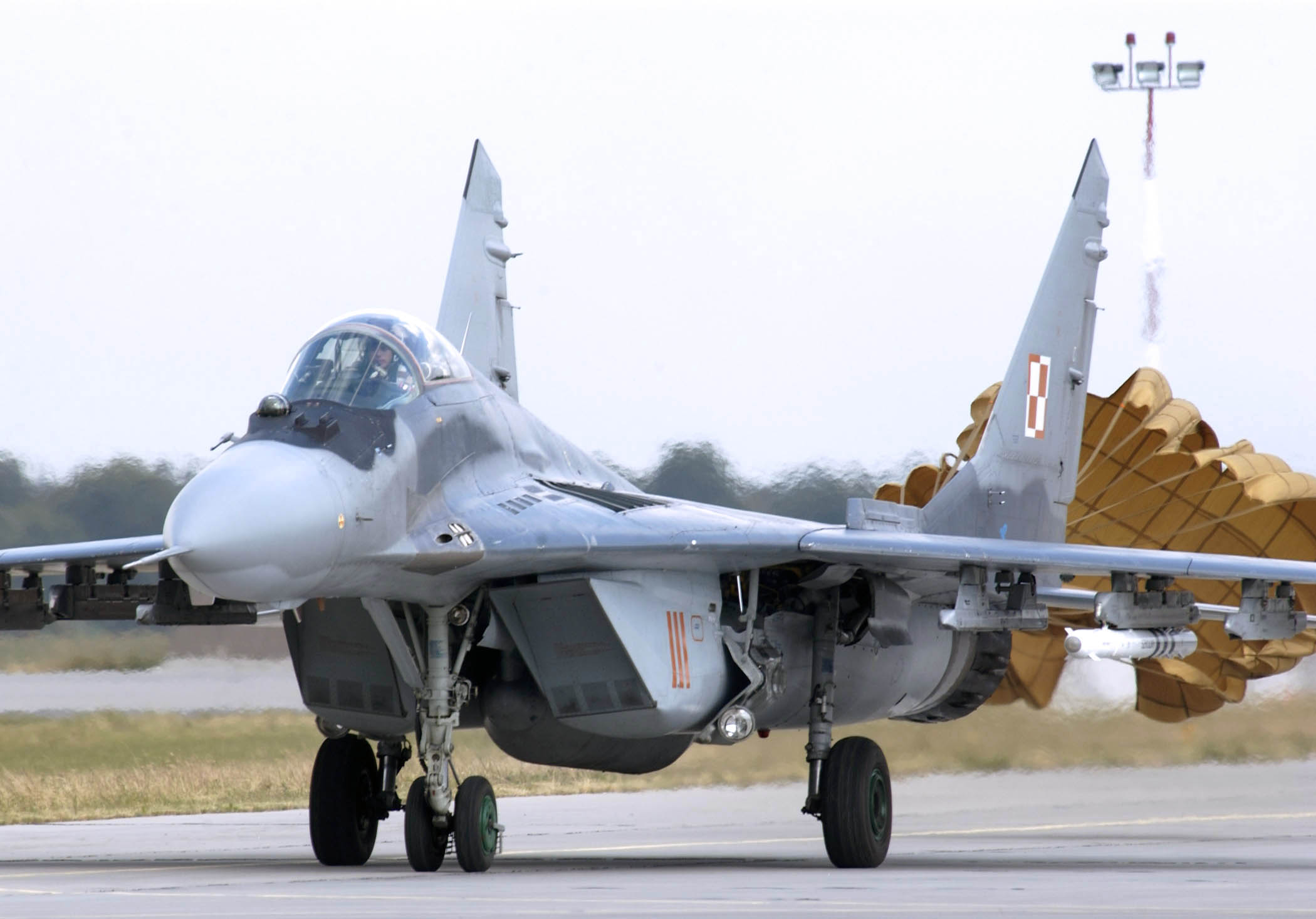 POZNAN, Poland -- A Polish air force MiG-29 taxis in with parachute in tow after finishing a mission here. Airmen from the Illinois Air National Guard's 183rd Fighter Wing are familiarizing Polish airmen with the F-16 Fighting Falcon during the U.S. European Command exercise Sentry White Falcon 2005 through June 17. In 2006, the Polish air force will start receiving their own F-16s that will begin replacing their Soviet-made MiG fighters as the country modernizes its military to NATO standards.